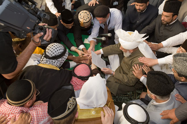 Photo of the international baiat ceremony, 2008.